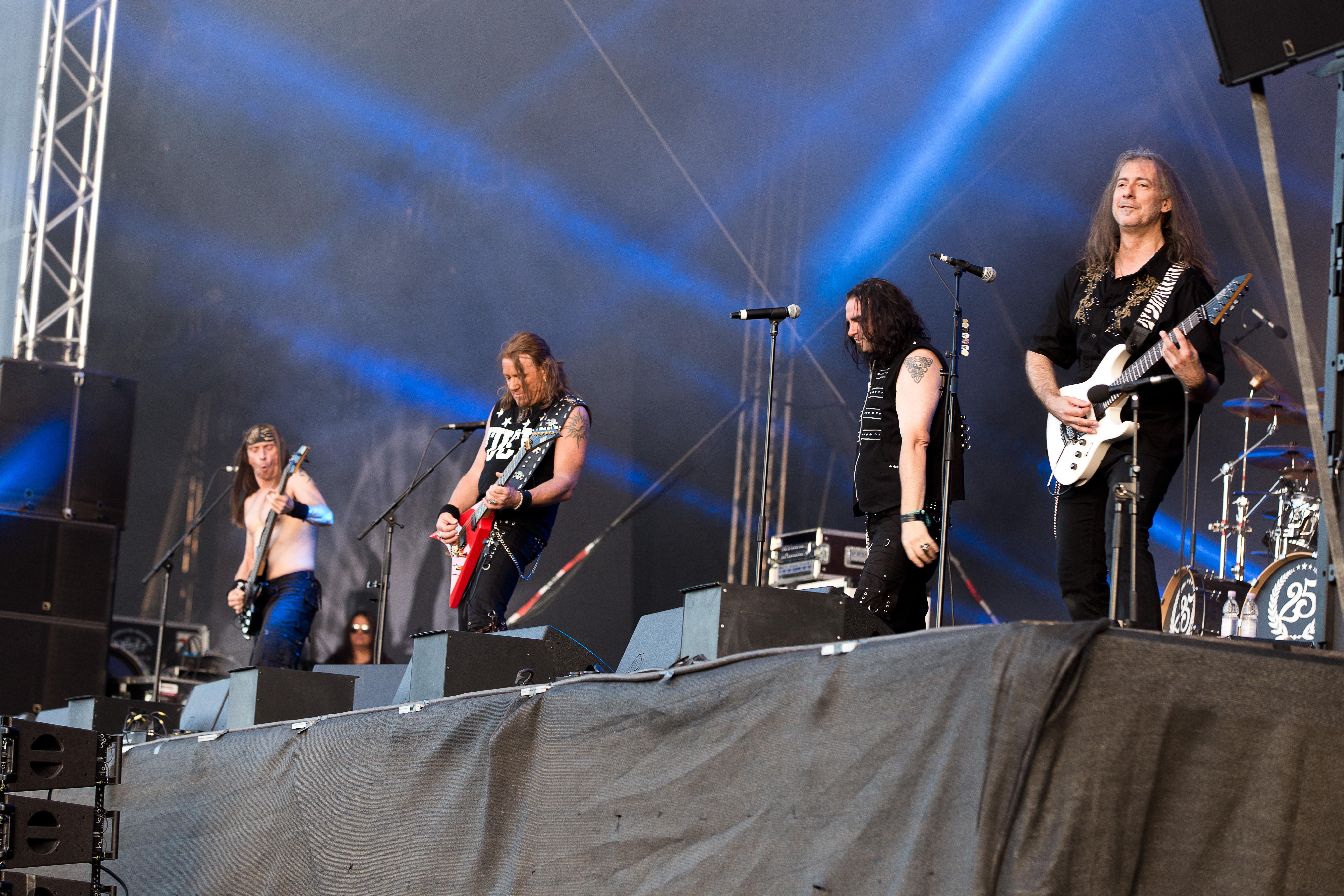 The German speed and power metal band Gamma Ray at the Rockharz Open Air 2016 in Ballenstedt/Germany.